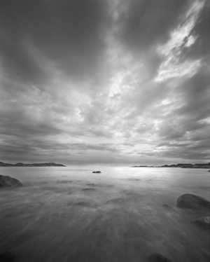 Pinhole photo from Skråvika in Larvik